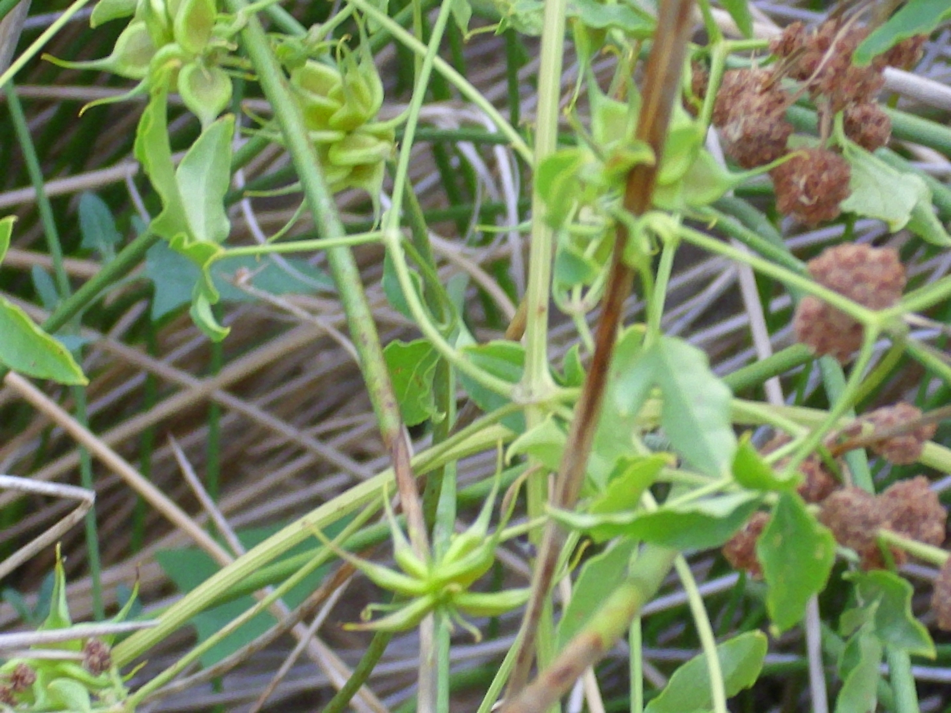 Clematis campaniflora fruits, Sierra Madrona, Spain.